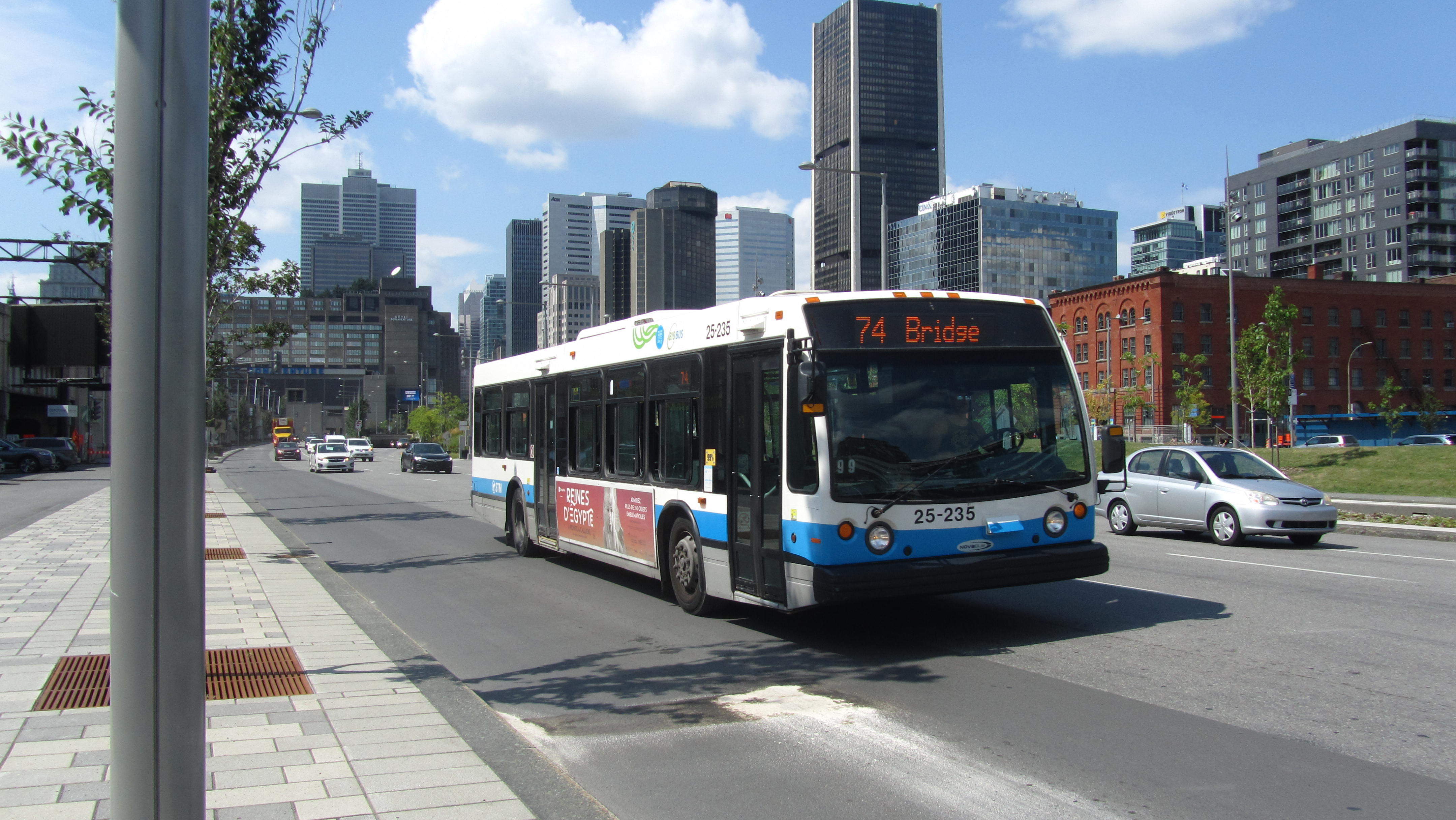 A Société Transport de Montréal 2005 Novabus LFS 2nd Generation in downtown Montréal on Nazareth street doing the 74 route.